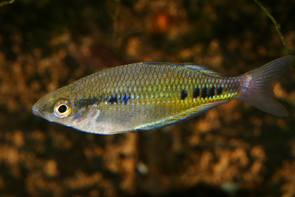 Spotted Rainbowfish (Glossolepis maculosus) - male - in aquarium.